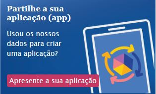 Screenshot from EUODP